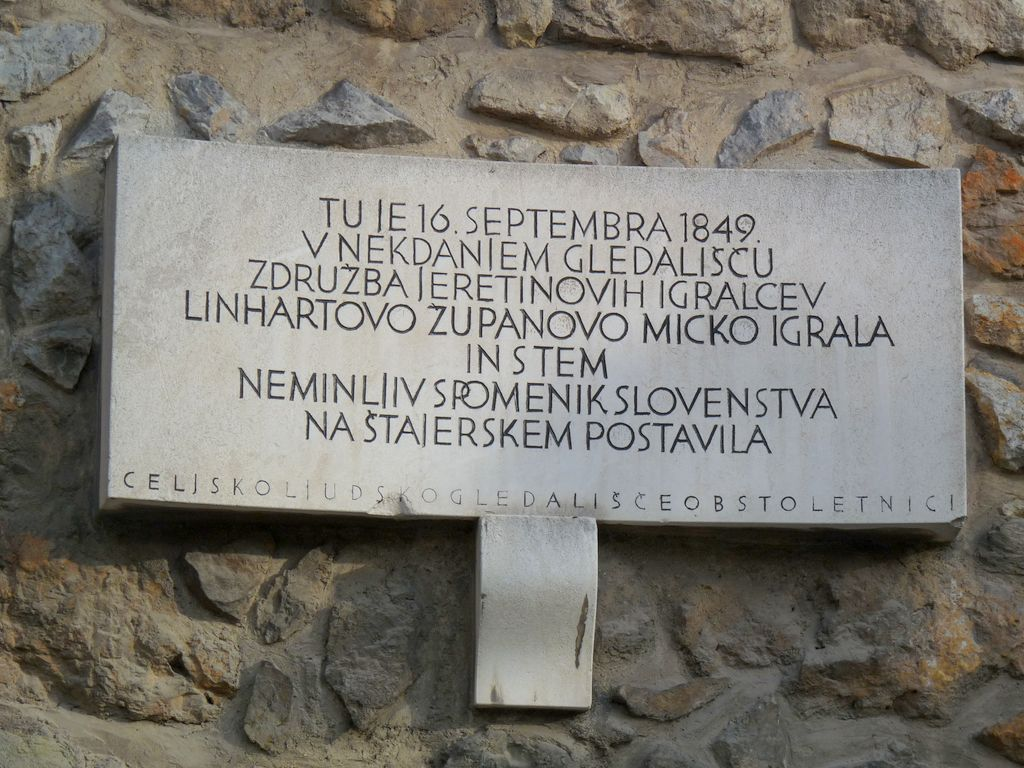 Ob stoletnici izvedbeŽupanove Micke v Celju.